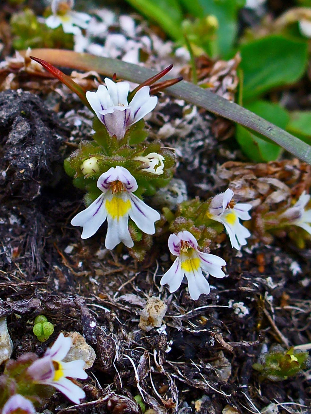 Euphrasia officinalis ssp. picta, Orobranchaceae, Colored Eyebright, flowers; Diavolezza, Engadin , Switzerland, altidude ca. 3.000 m.